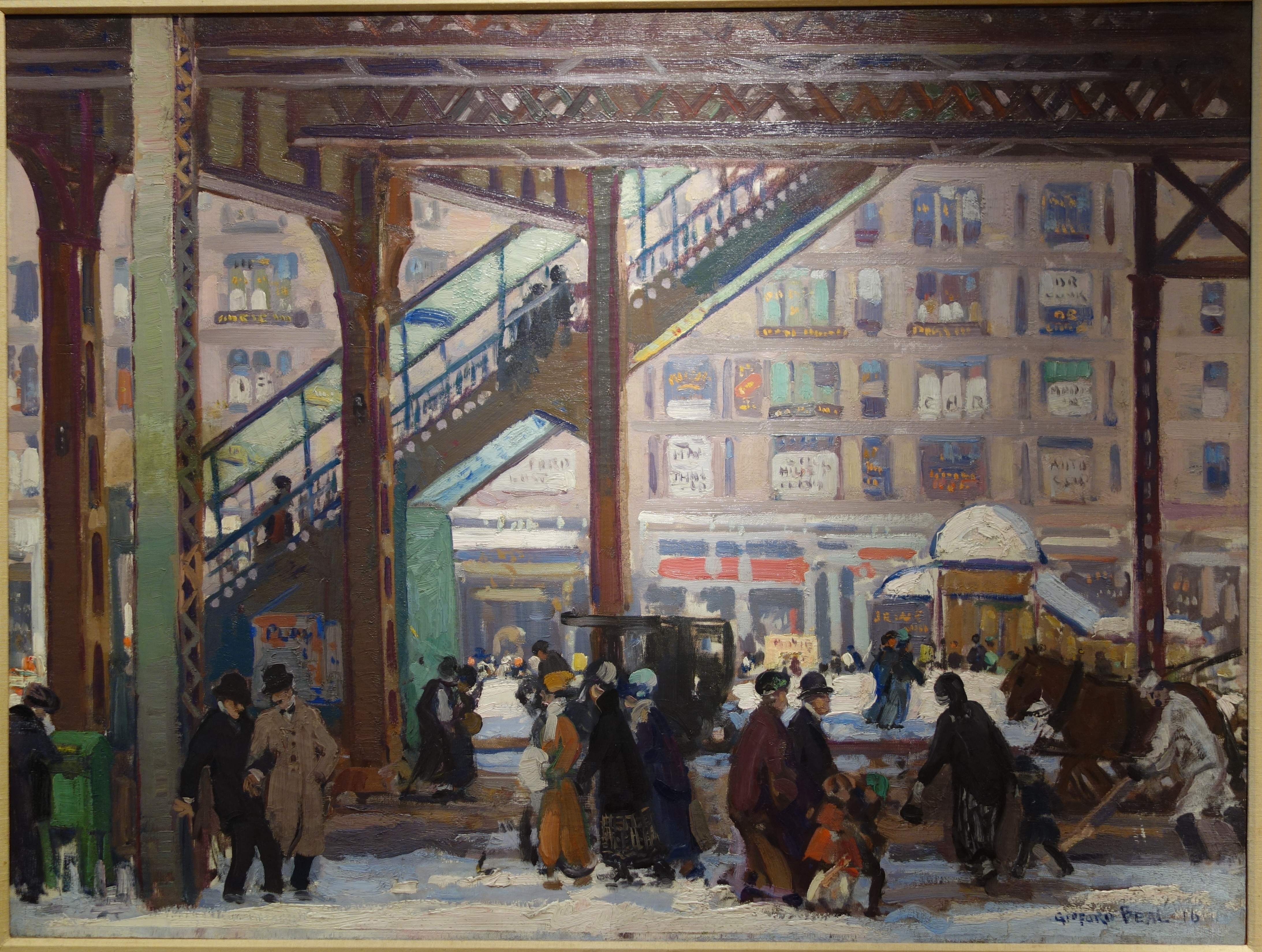 Exhibit in the New Britain Museum of American Art, New Britain, Connecticut, USA. This artwork is in the public domain because it was first published in the United States before 1923. The museum permitted photographs of this exhibit without restriction.